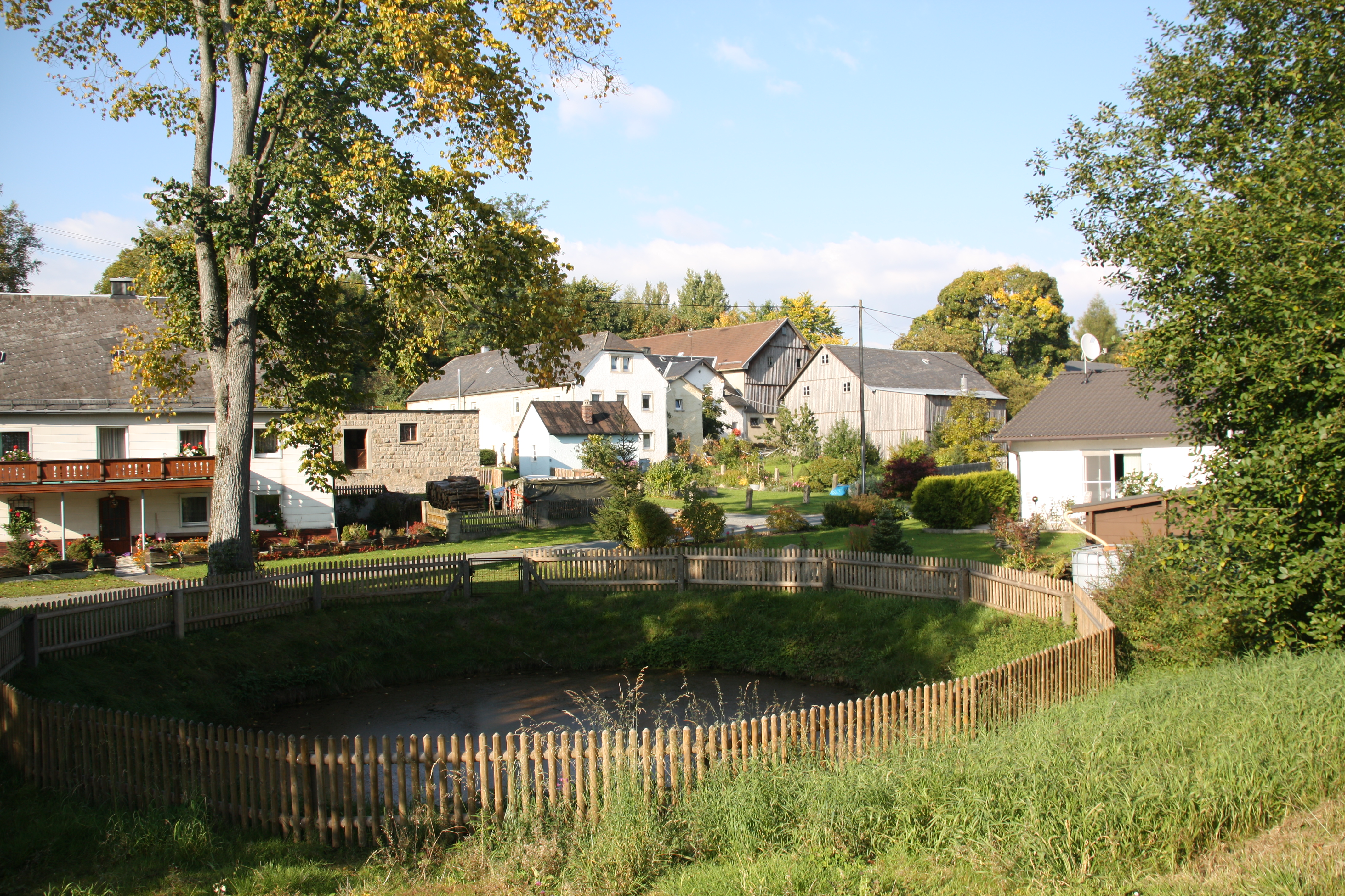 middle of the village Mussen